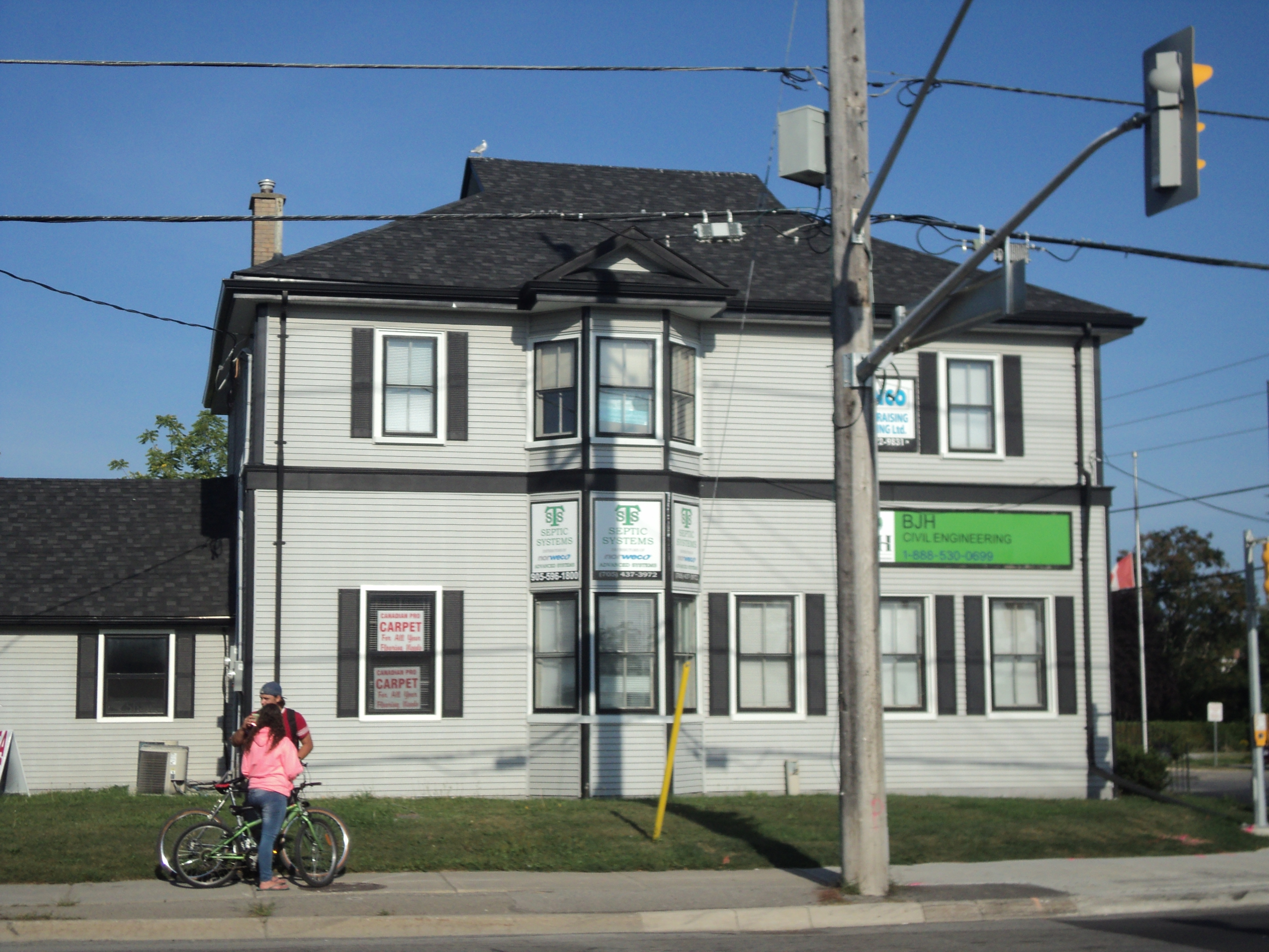 Close up of the station.